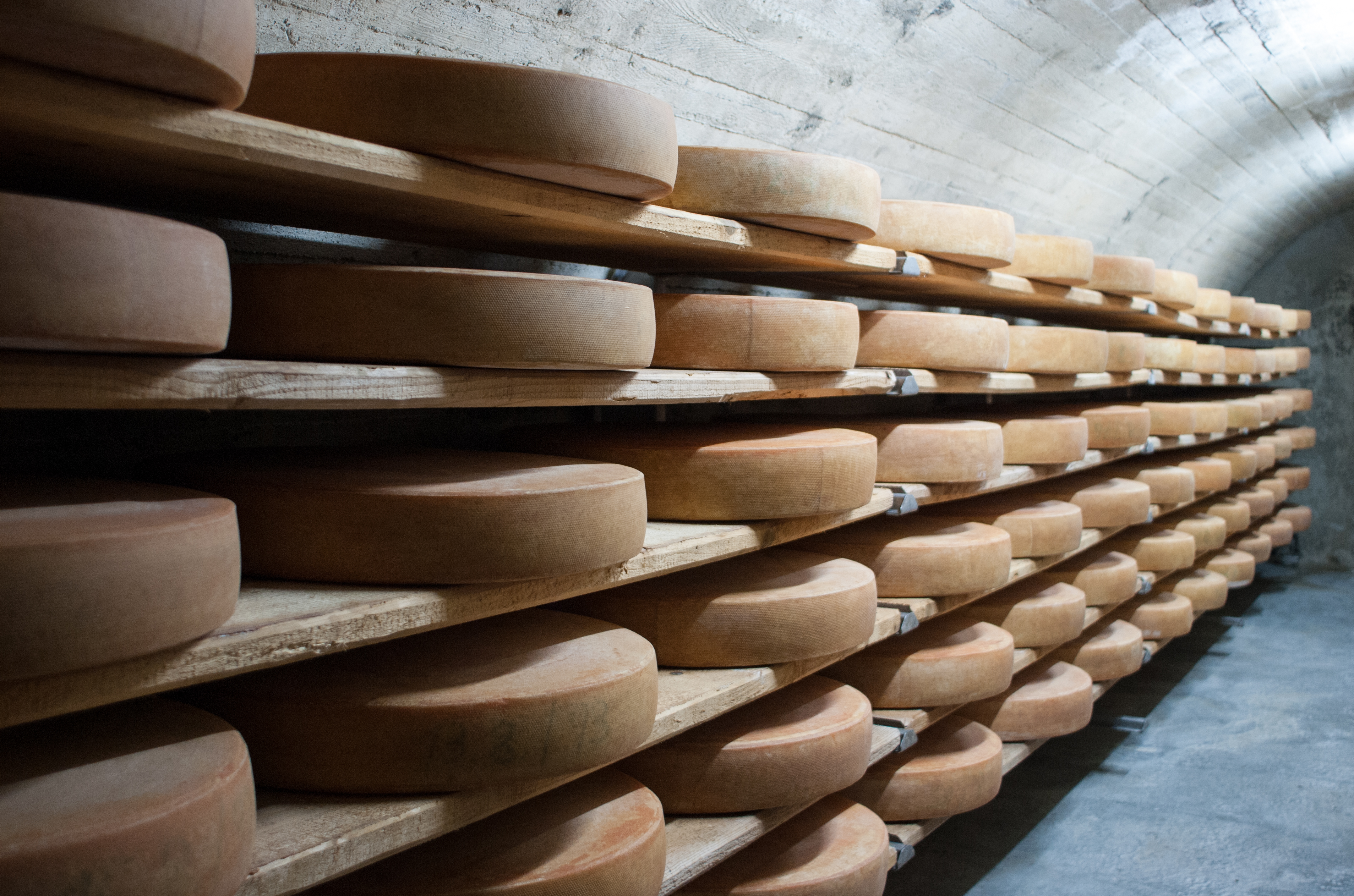 Cheese from Tyrolean mountain pastures maturating in a tunnel eastern from Innsbruck